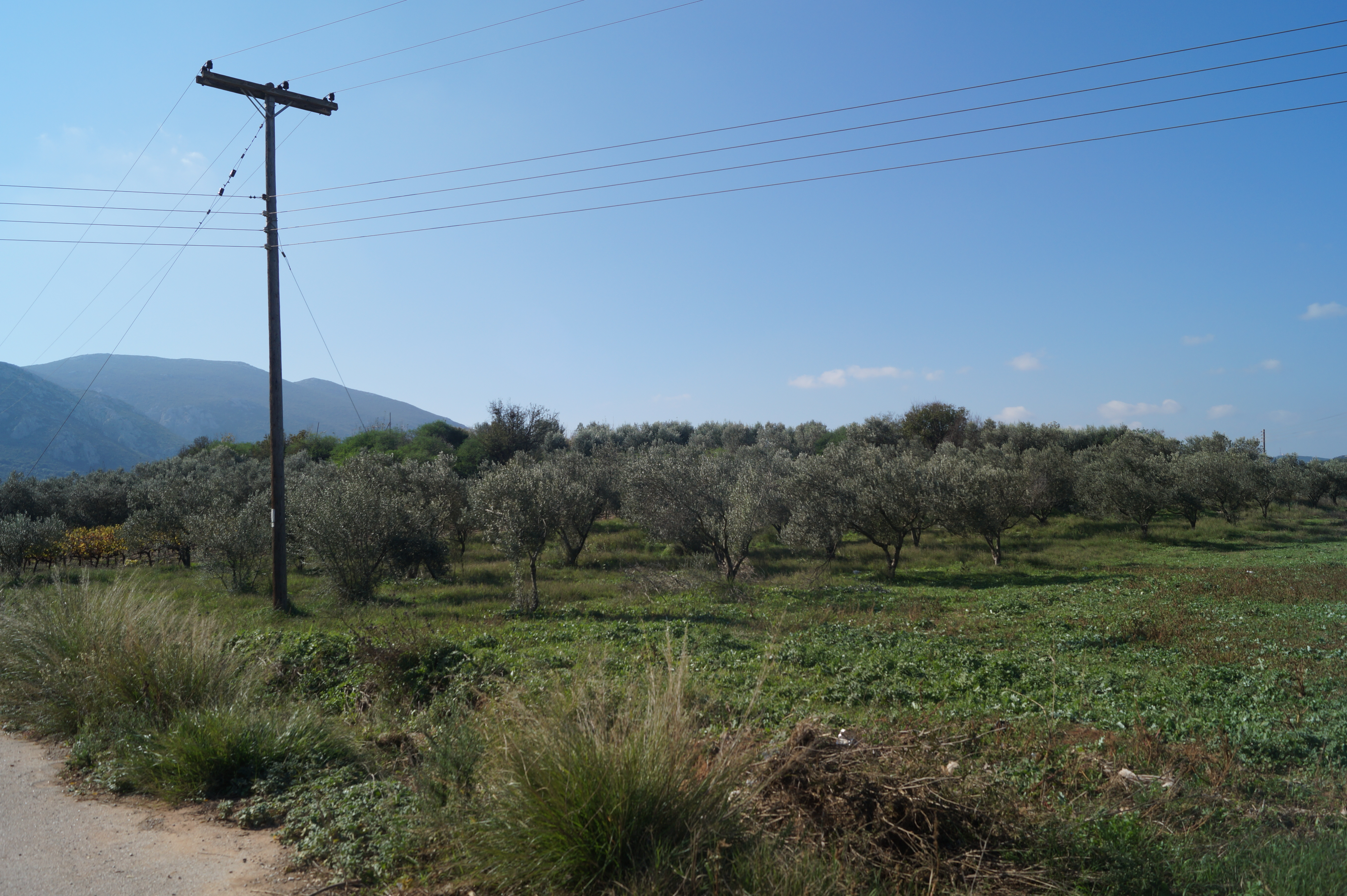 Agios Vasilios, Corinthia, Greece: View from east on the hill of Zygouries.